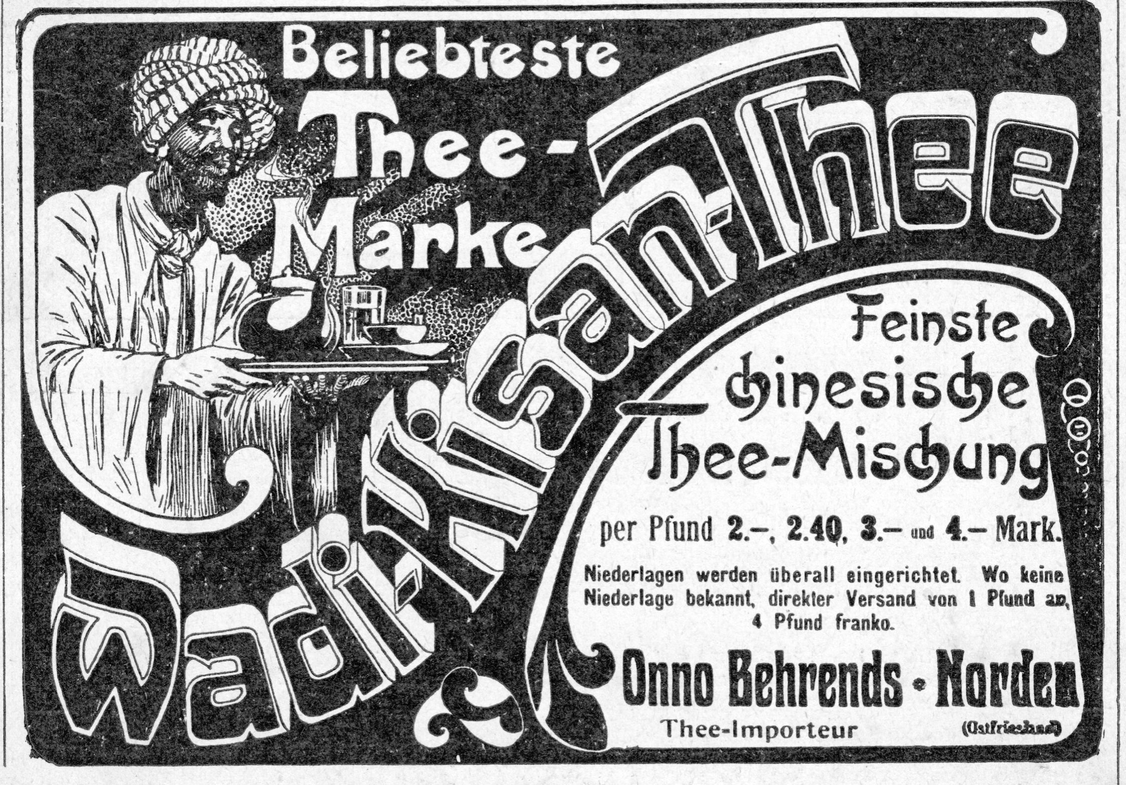 Advertisement of Onno Behrends